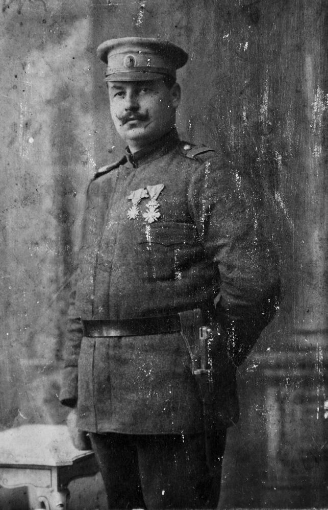 portrait